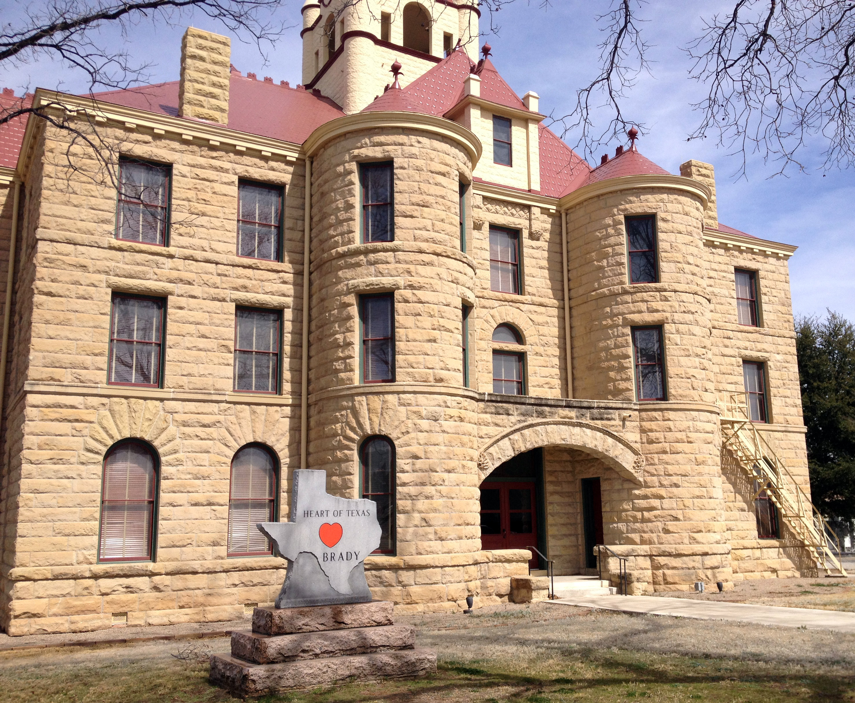 McCulloch County Courthouse in Brady, Texas, also known as the "Heart of Texas"